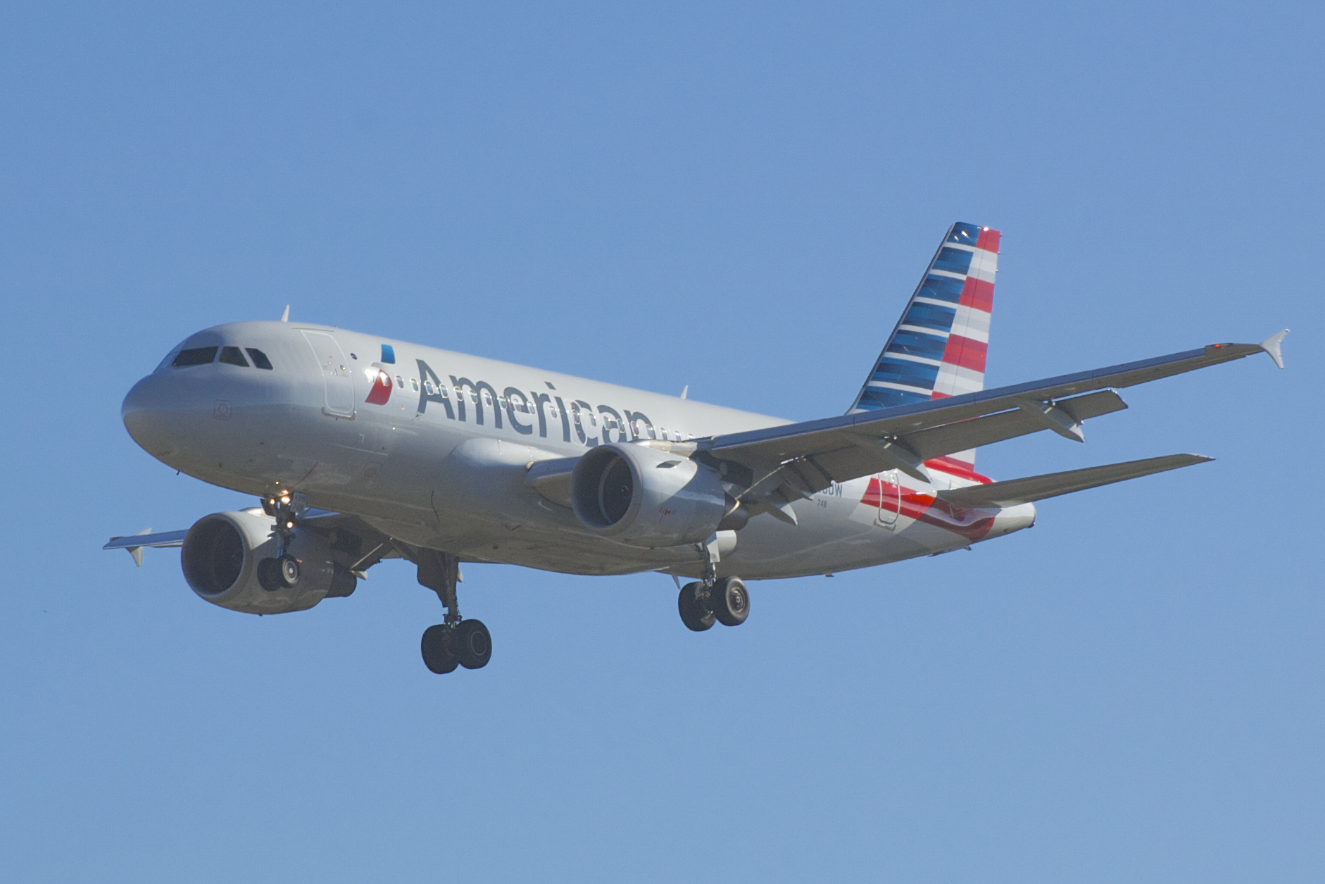 American Airlines A319 N748UW landing at BWI airport.